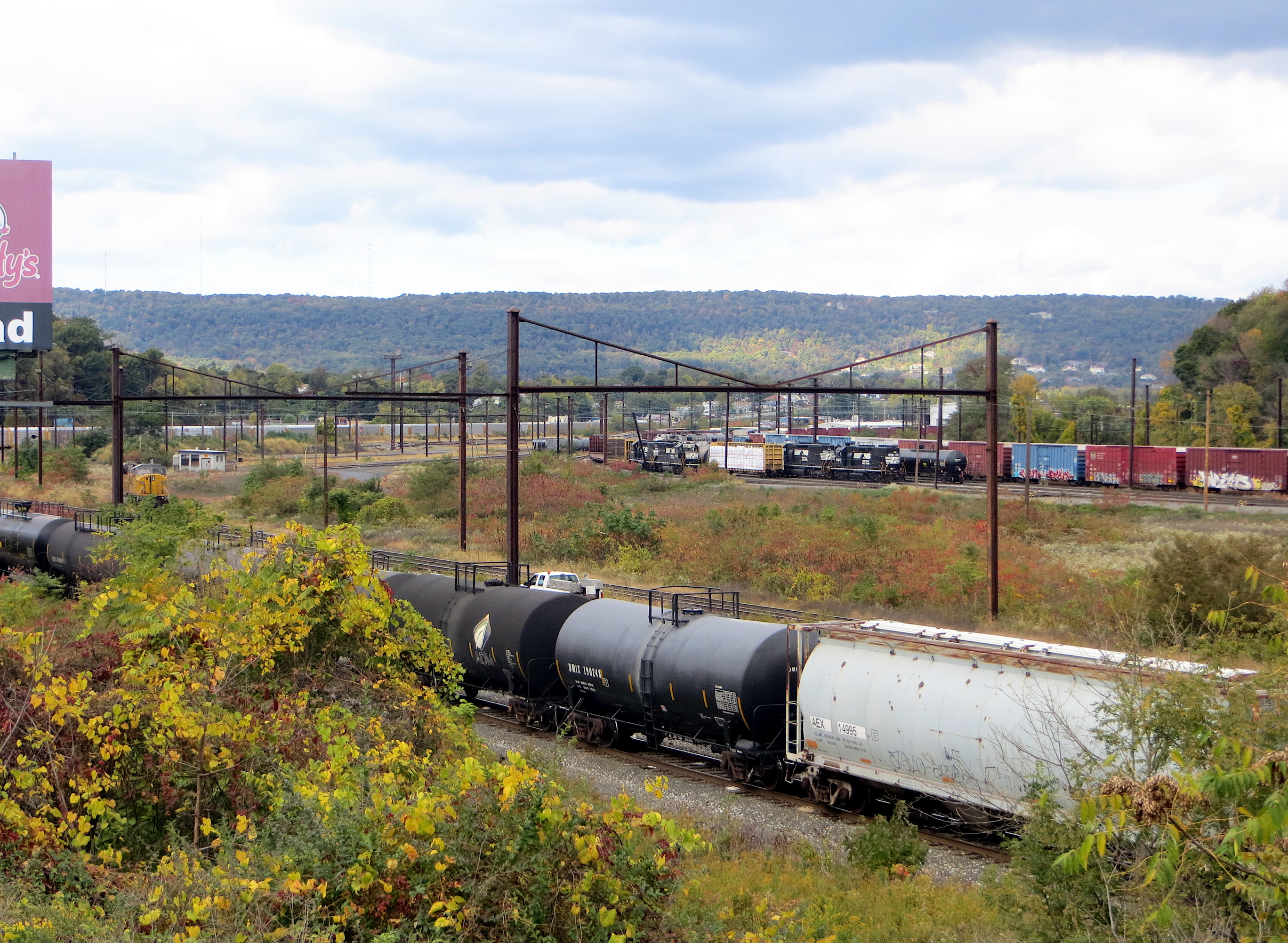 20151016 03 Norfolk Southern RR, Enola, Pennsylvania